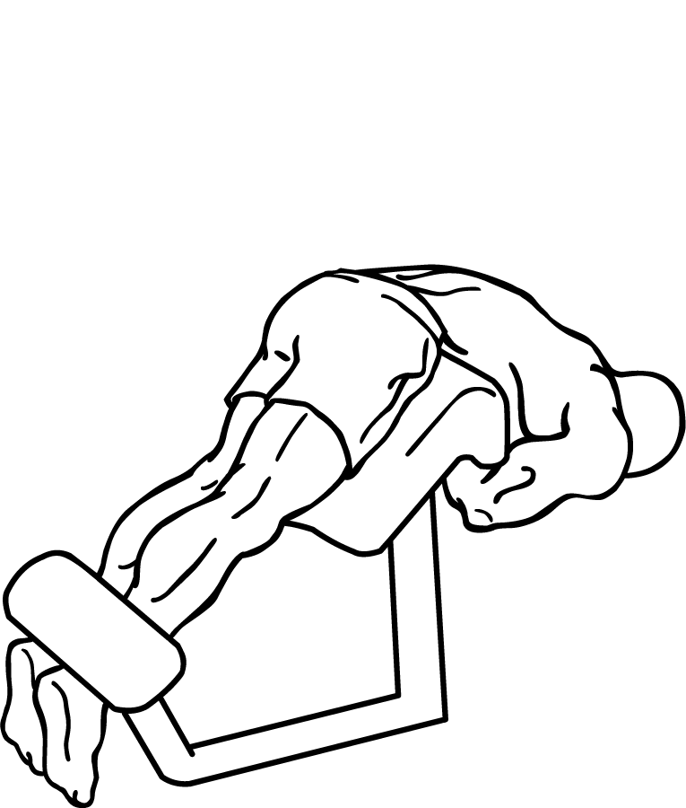 an exercise of lower back